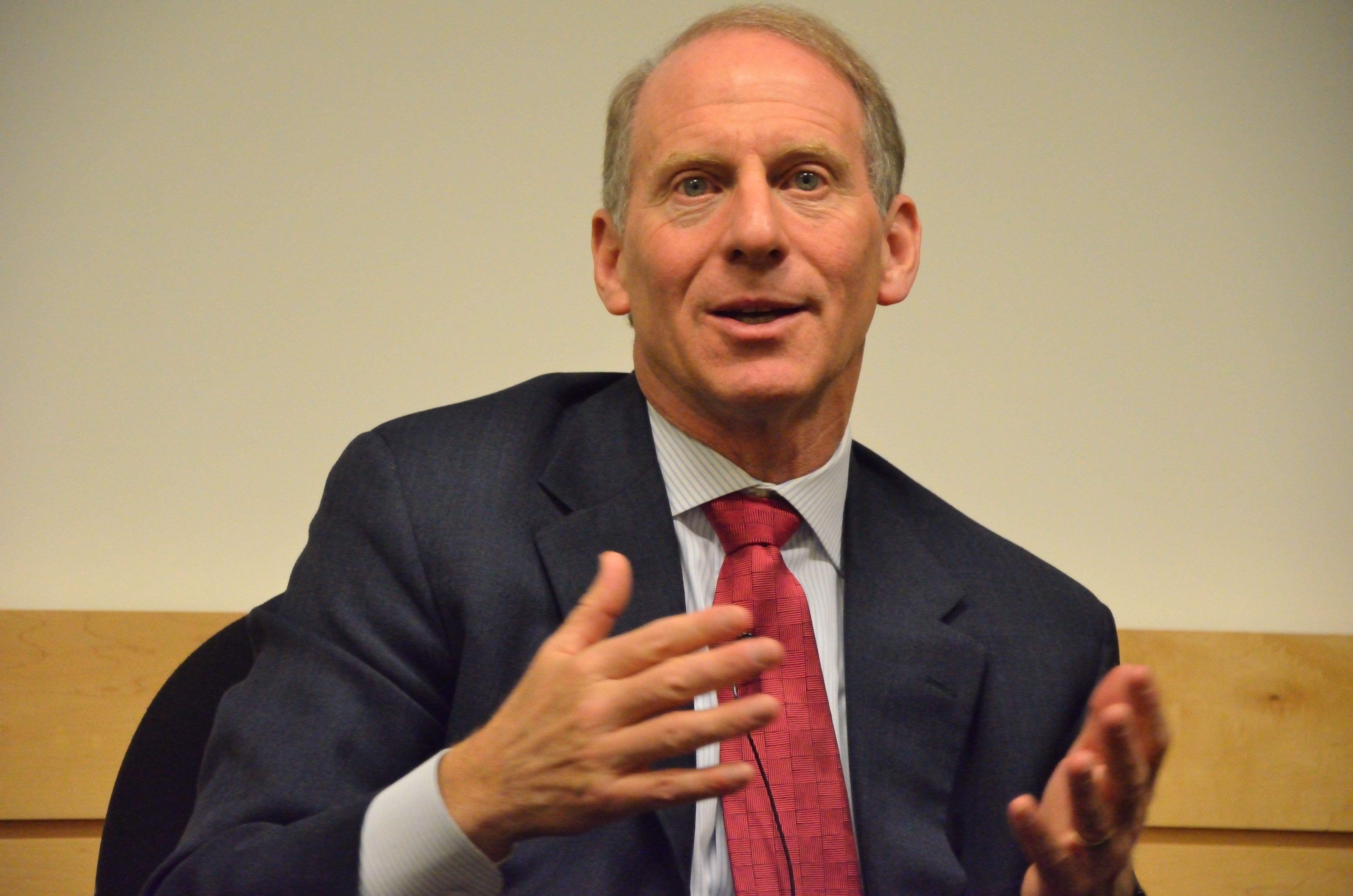 Richard N Haass speaks to the Microsoft Political Action Committee on Microsoft Campus in Redmond, Washington, United States.